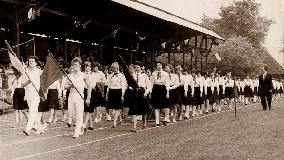 The stadium often was host of different sport celebrations too.